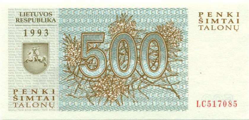 500 talonas "provisional money" Lithuania, 1991